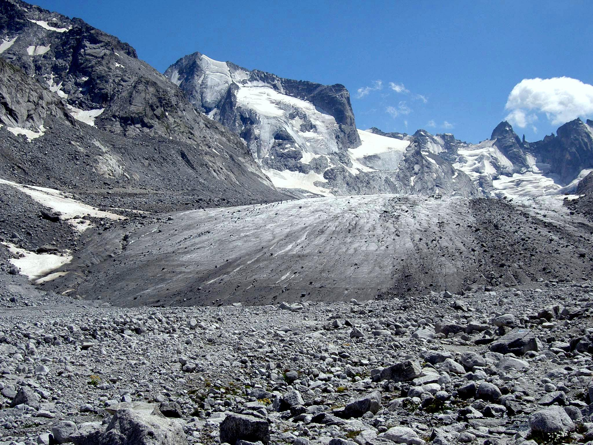 Forno glacier, near Majola Pass, Graubünden